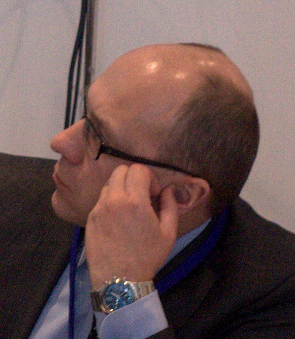 1st EU-Eastern Partnership Forum